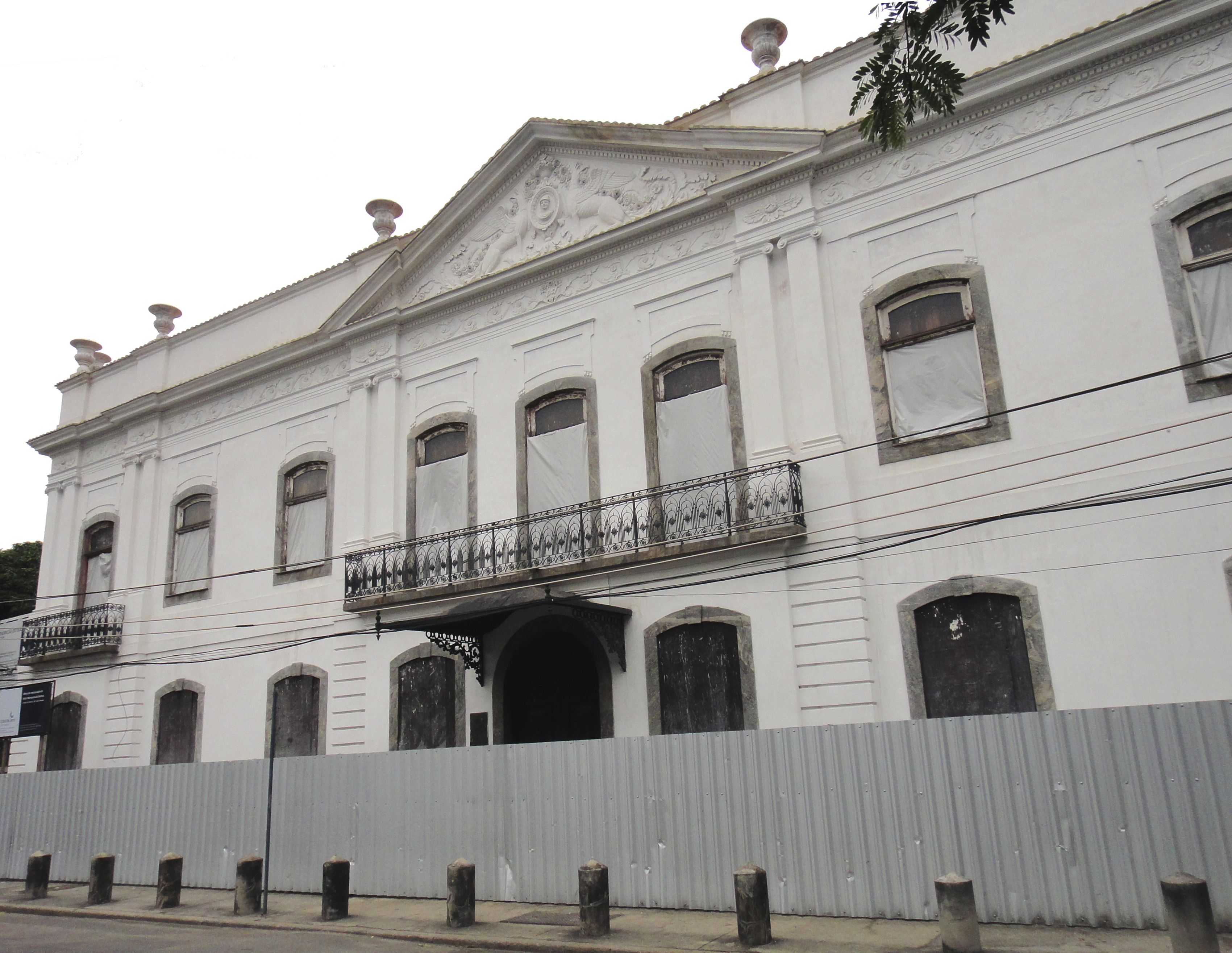 Neoclassic façade of Marquesa de Santos Palace in São Cristóvão neighbourhood, Rio de Janeiro